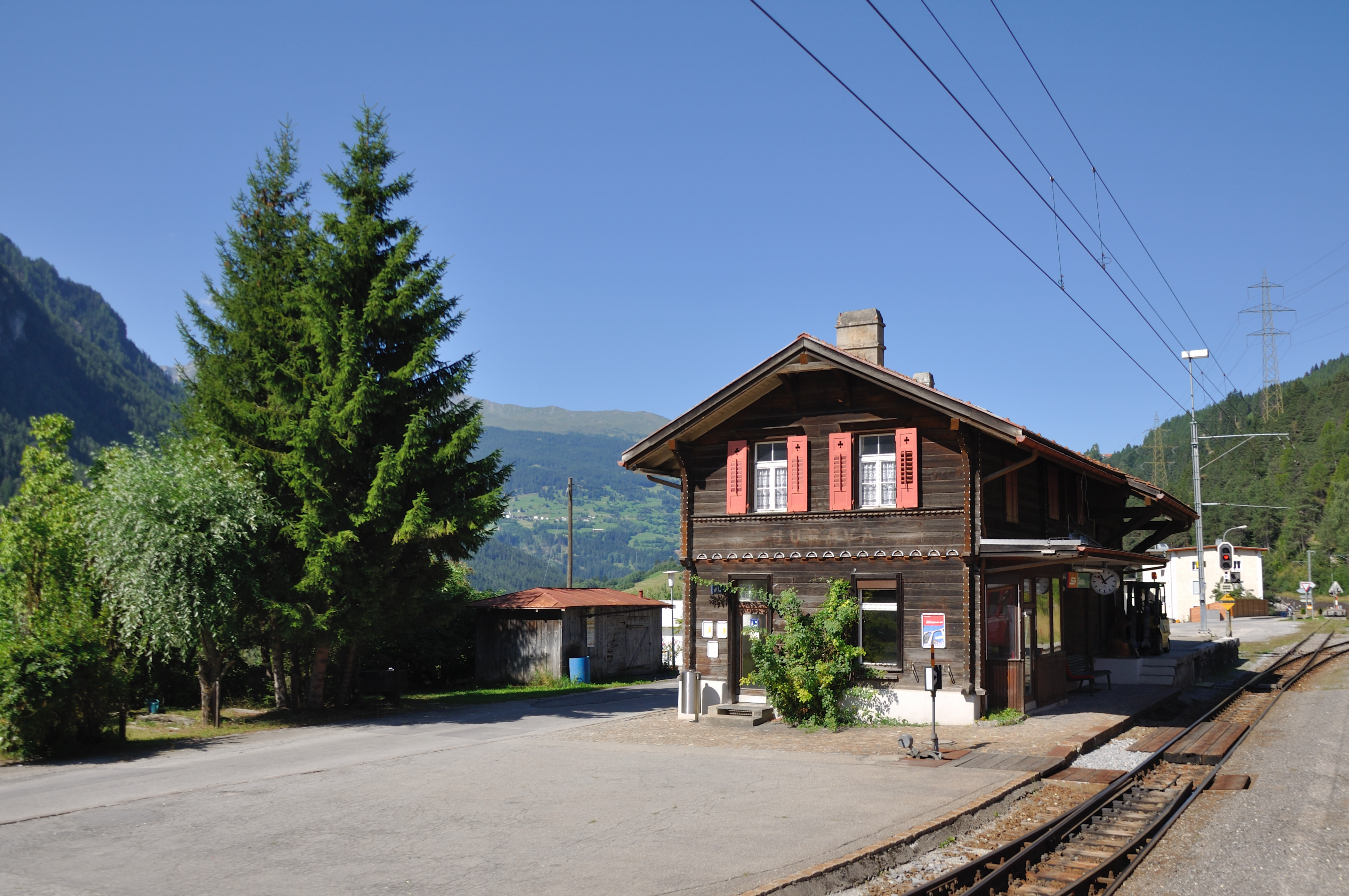 Switzerland, Graubünden, impressions on the Albula line of the Rhaetian Railways between Bergün and Thusis